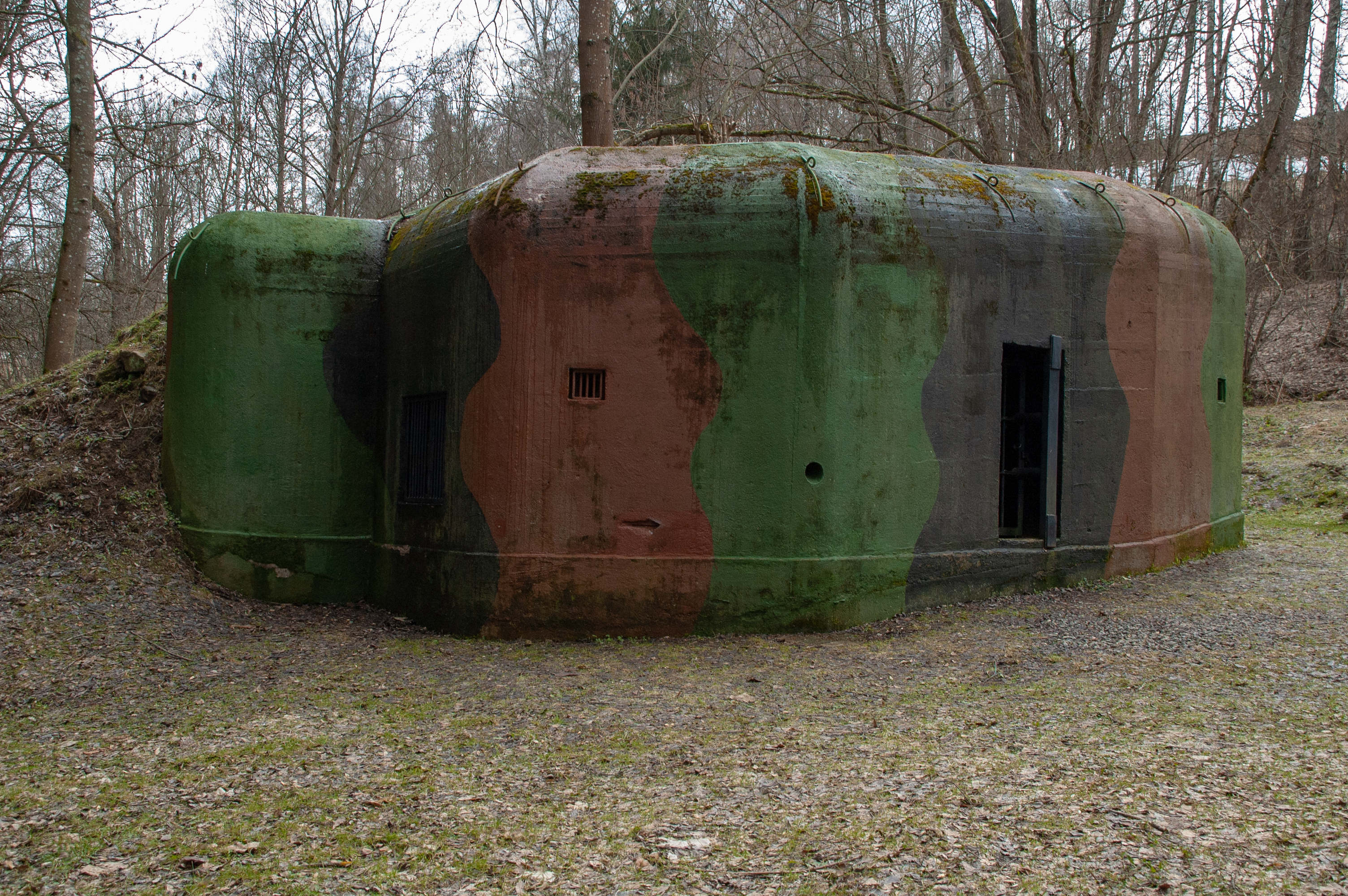 This image was created as a part of Editaton Prachatice (Czech).